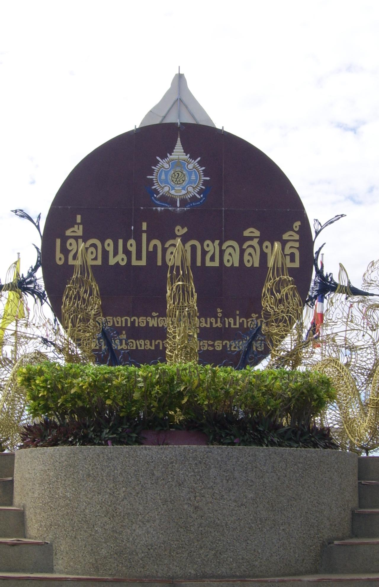 Sign at Pasak Jolasit Dam